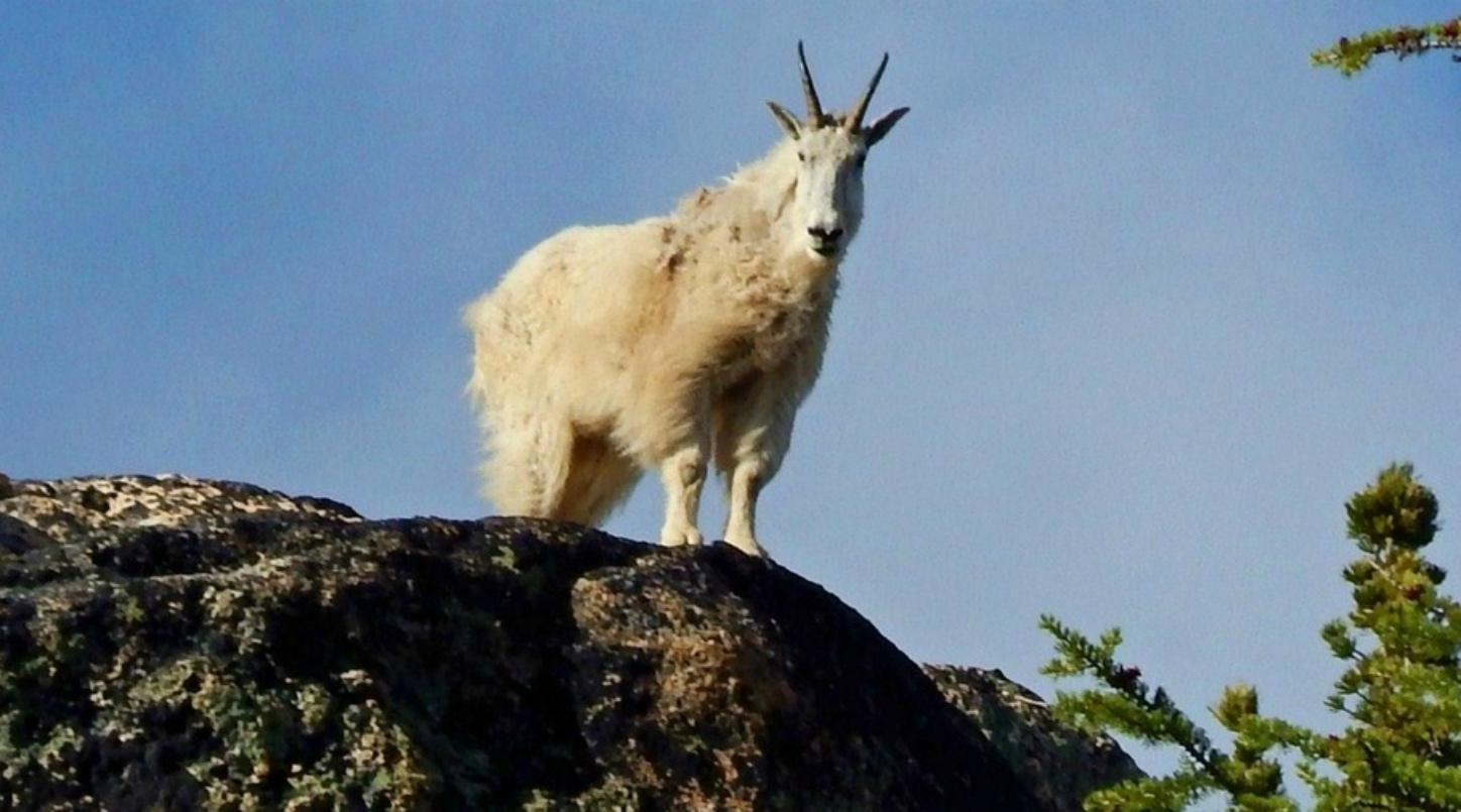 Mountain goat in the North Cascades of Washington state, specifically the south ridge of Wallaby Peak.